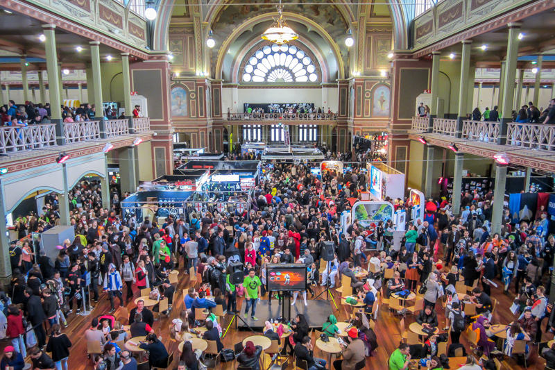 The crowd at Oz Comic-Con at the Royal Exhibition Building in Melbourne, Australia in July 2014.